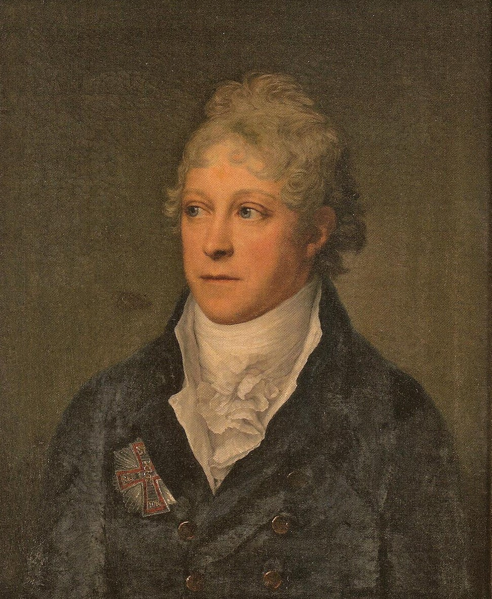 Friedrich Carl Gröger: Friedrich Graf Reventlow, oil on canvas, 67,5x55 cm, private collection in Schleswig-Holstein